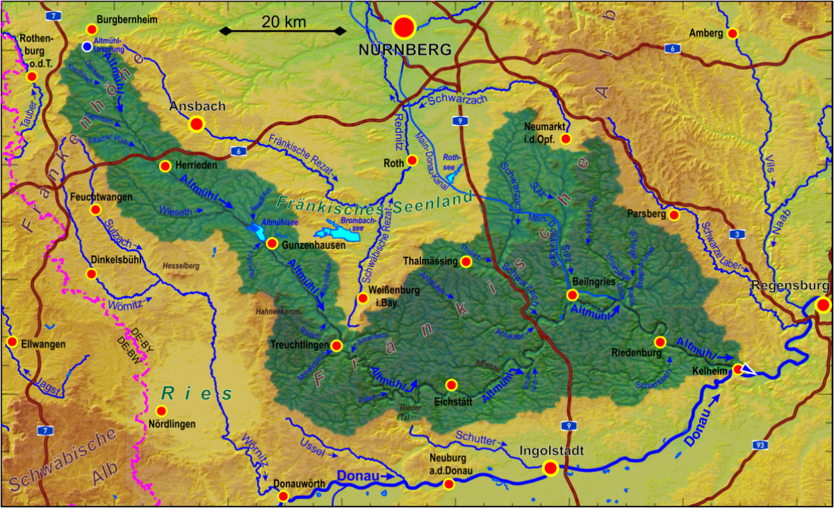 Catchment area of the Altmühl